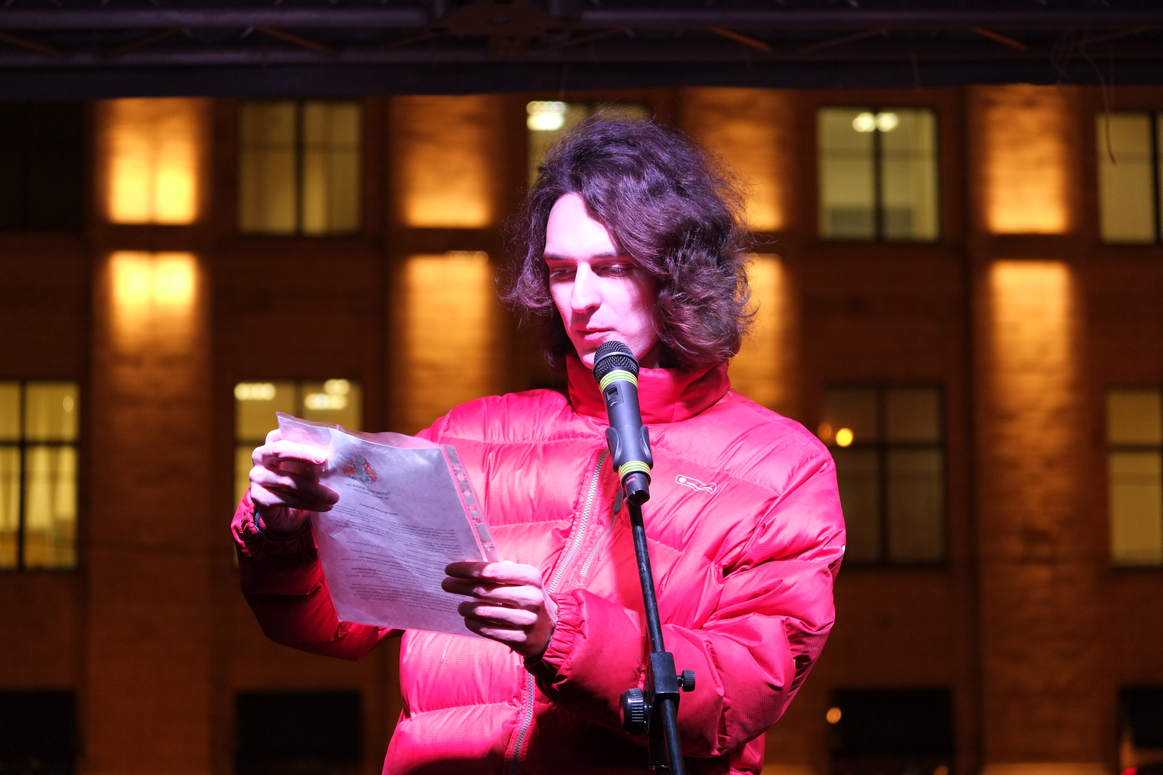 Maxim Katz read a resolution of the manifestation against reconstruction of Triumfalnaya square. The manifestation which took place on Triumfalnaya square itself was organized by "City Projects of Ilya Varlamov and Maxim Katz".